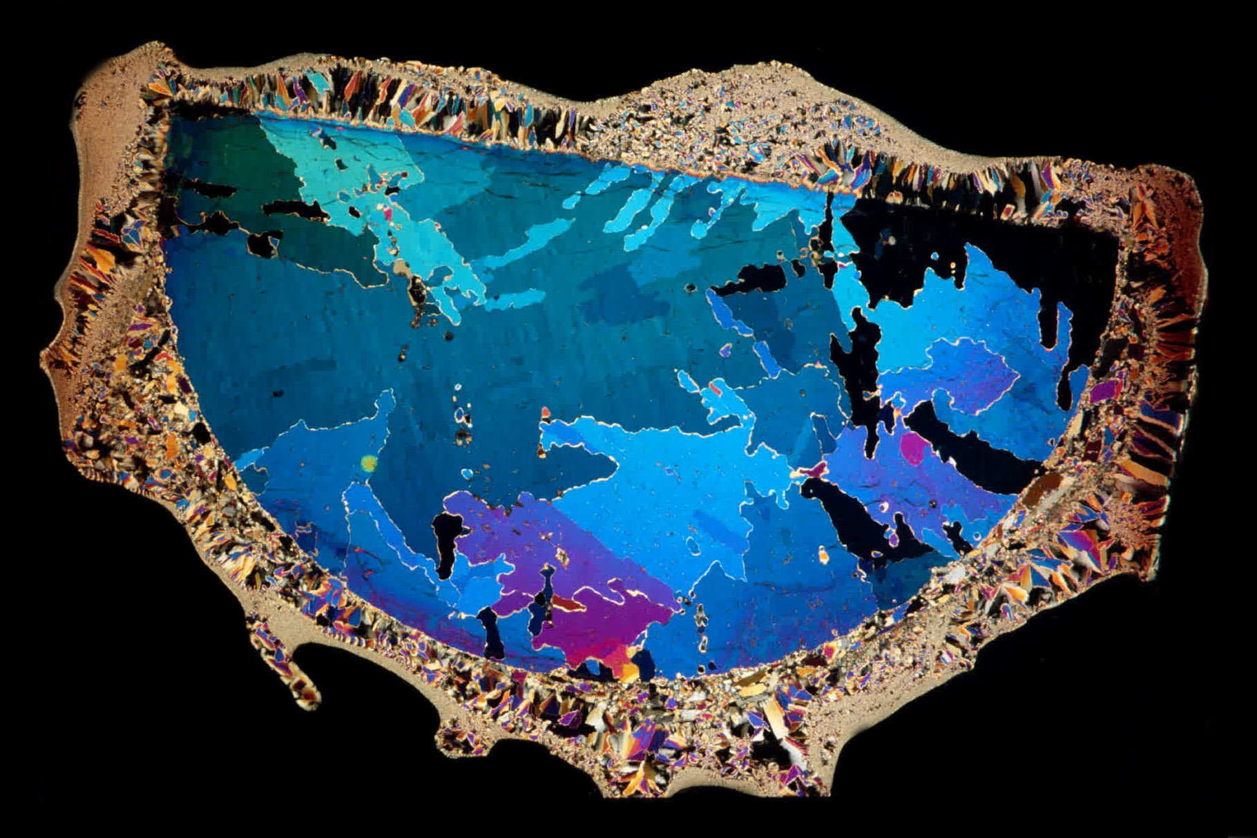 Thin section of an ice core from the Antarctic